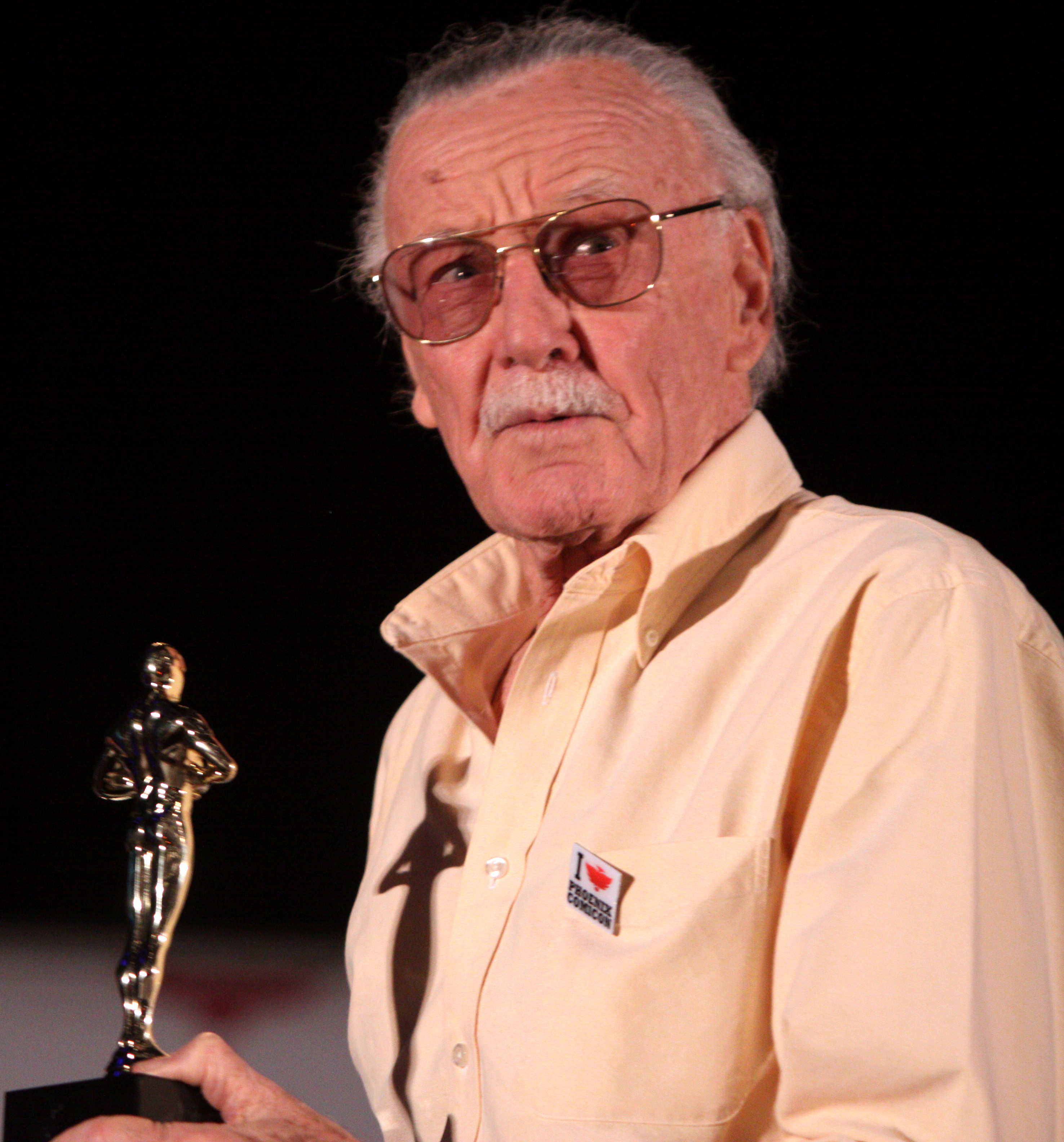 Stan Lee at the Phoenix Comicon in Phoenix, Arizona.